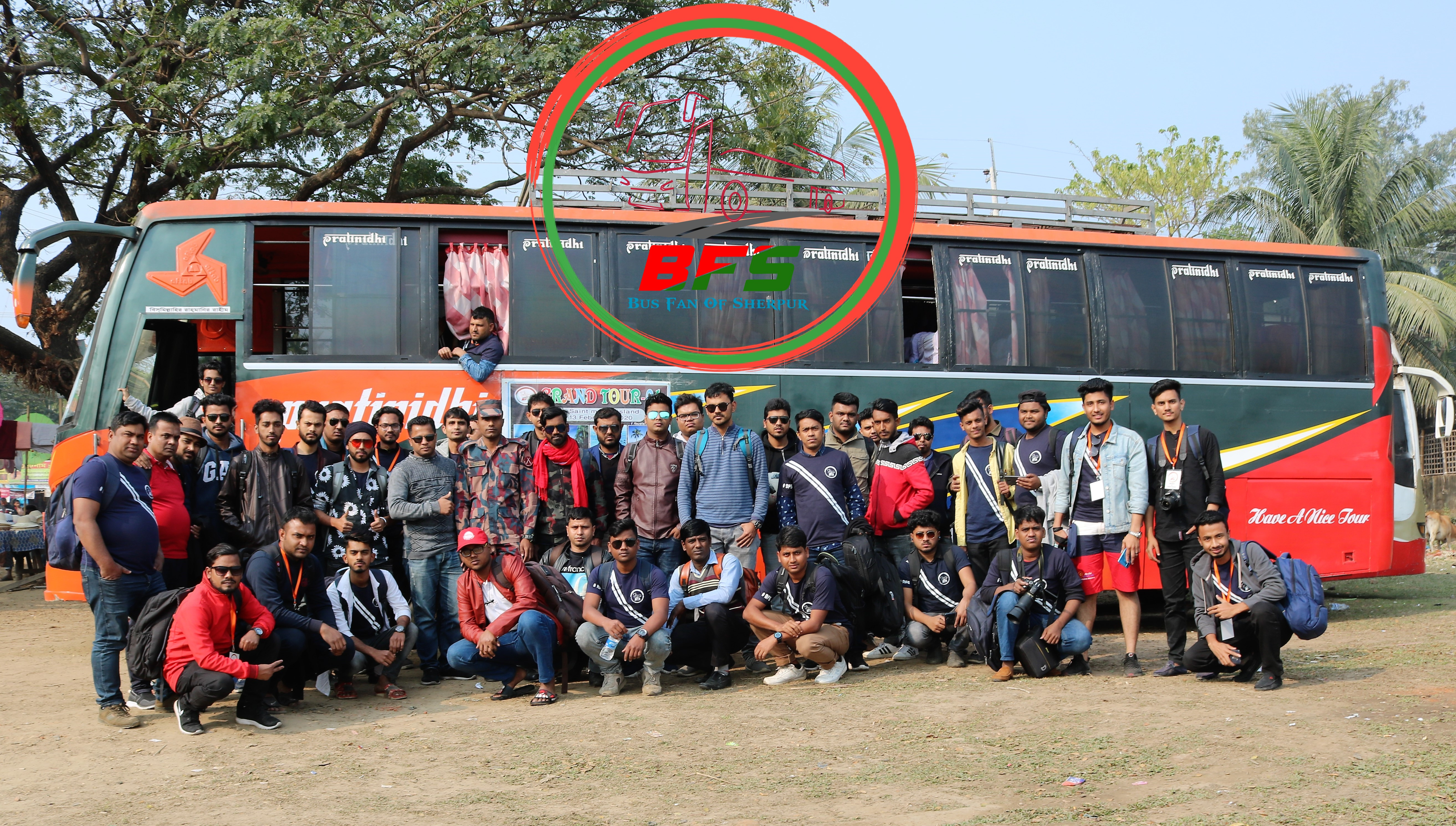 BUS FAN OF SHERPUR GT-04 Saint Martin, 2K20